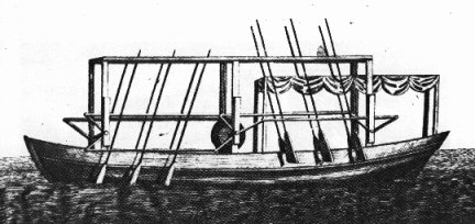 Fitch's first steamboat, driven by Indian canoe-type paddles